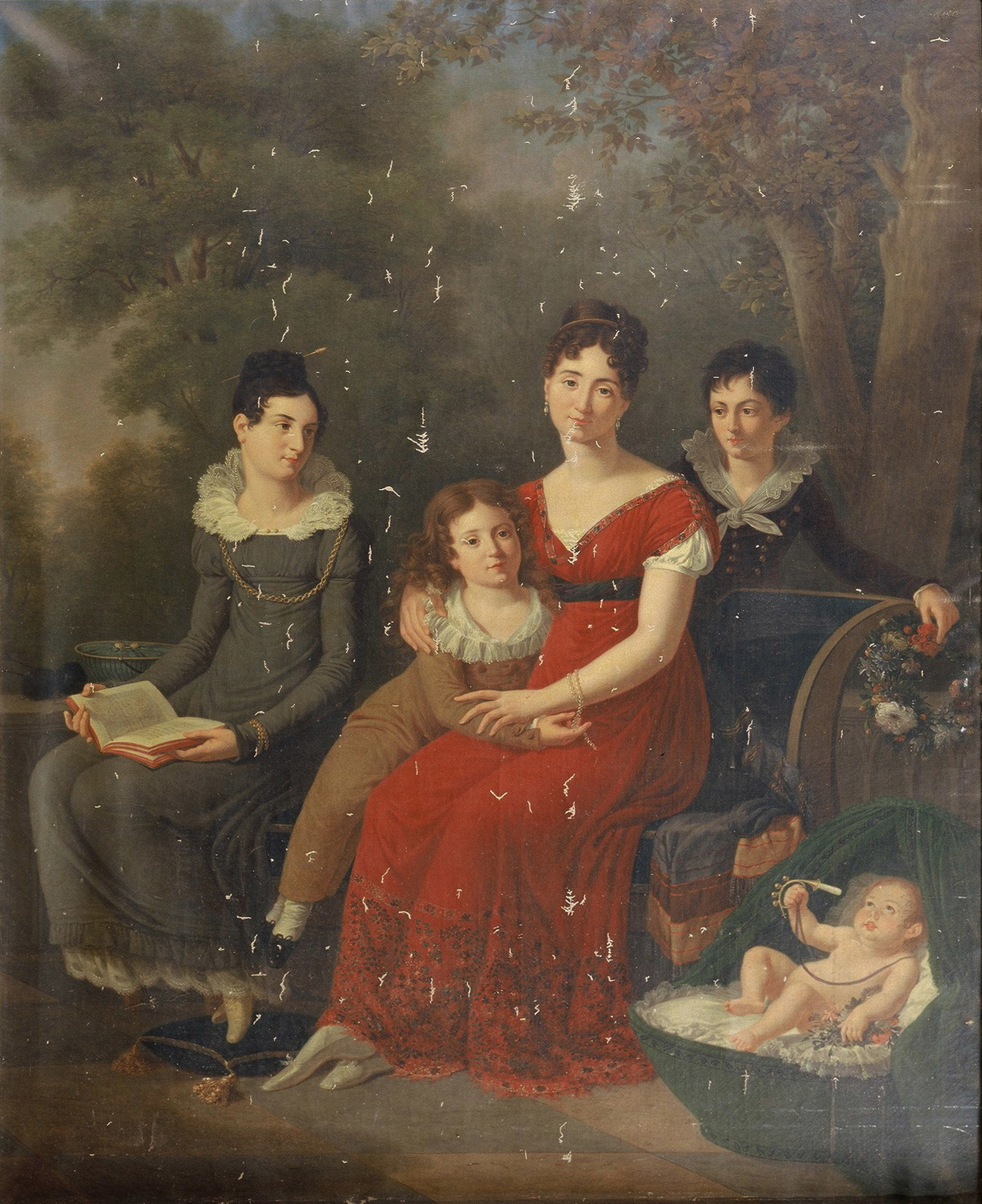 La baronne Reynaud et ses enfants dans les jardins du banquier Fulchiron à Passy (ancien hôtel de Valentinois, actuelle rue Singer) par Nanine Fulchiron née Anne Honorée-Julie Maron de Montjuzion (1814)